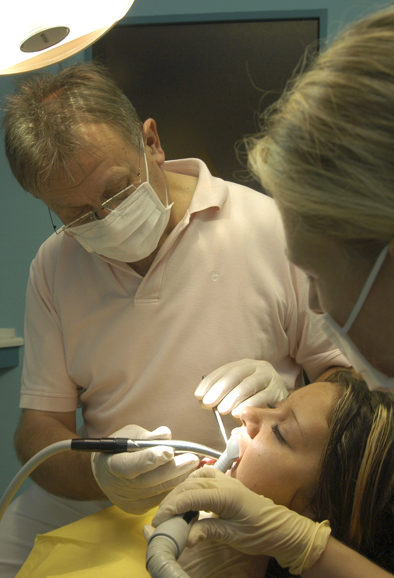 Girl have a dental treatment